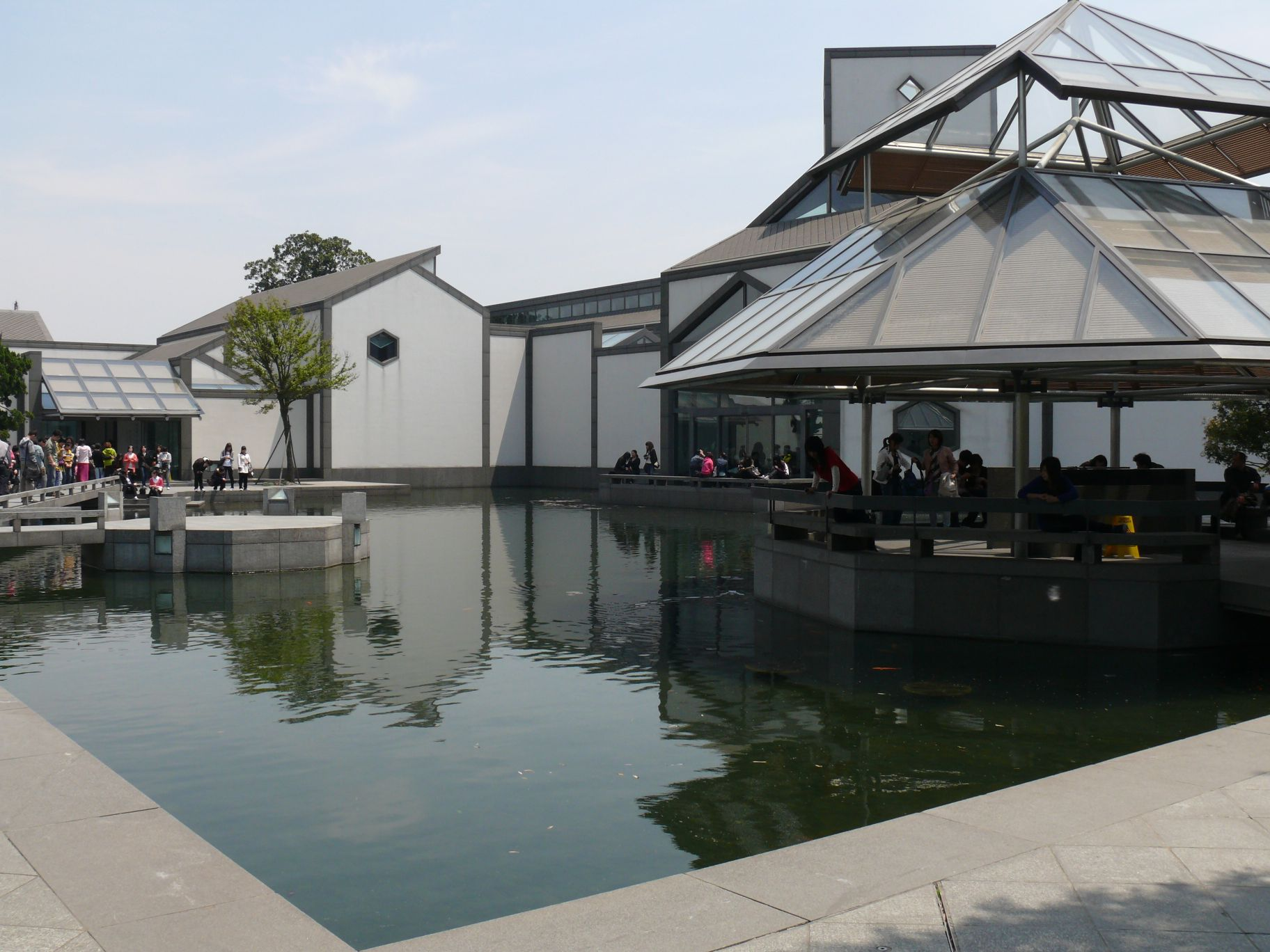 The buildings designed by Ieoh Ming Pei in Suzhou Museum (Jiangsu, China)